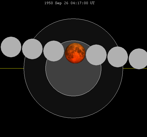 September 1950 lunar eclipse chart of moon's total lunar eclipse path through the earth's shadow. thumb